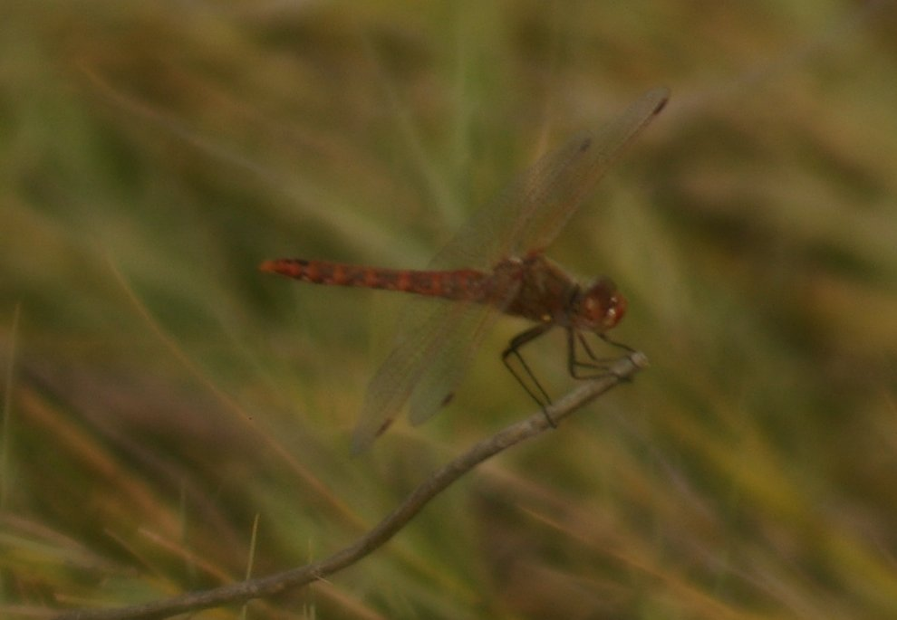 A dragonfly at Bitter Lake National Wildlife Refuge, Roswell, NM. The Refuge is known for its population of dragonflies.